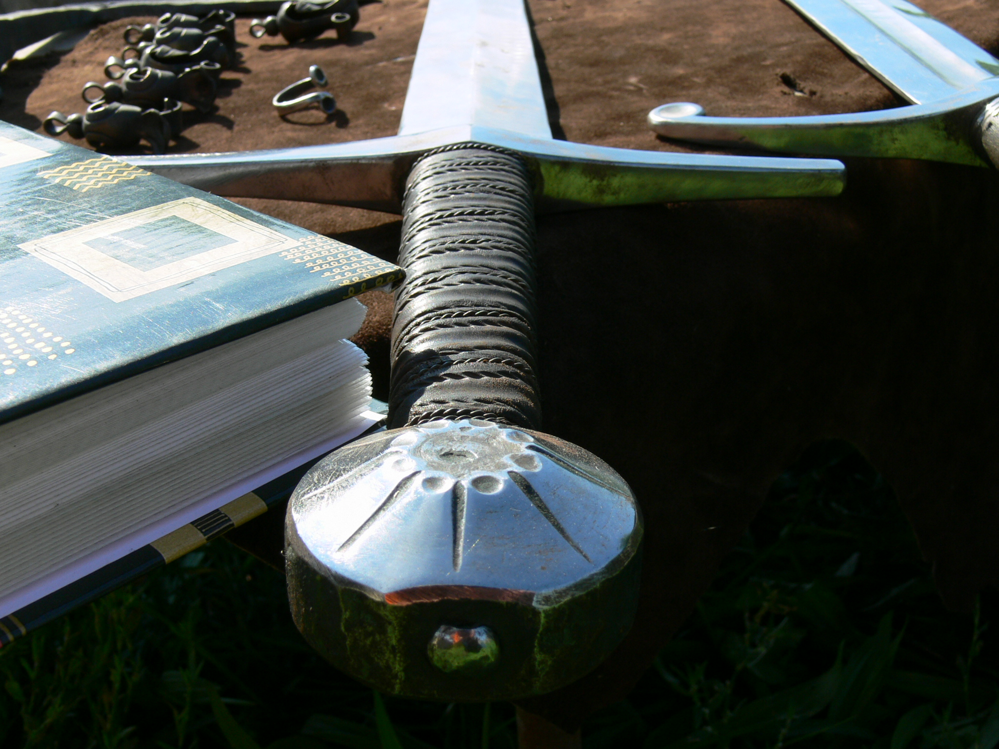 A medieval sword hilt - taken during Devin 2006 festival